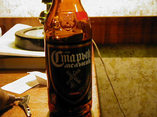 Stari Melnik beer. Moscow, March 2005. My own photograph.